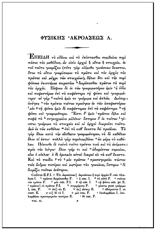 Aristotle: Physica, first page in Immanuel Bekker's edition, 1837.